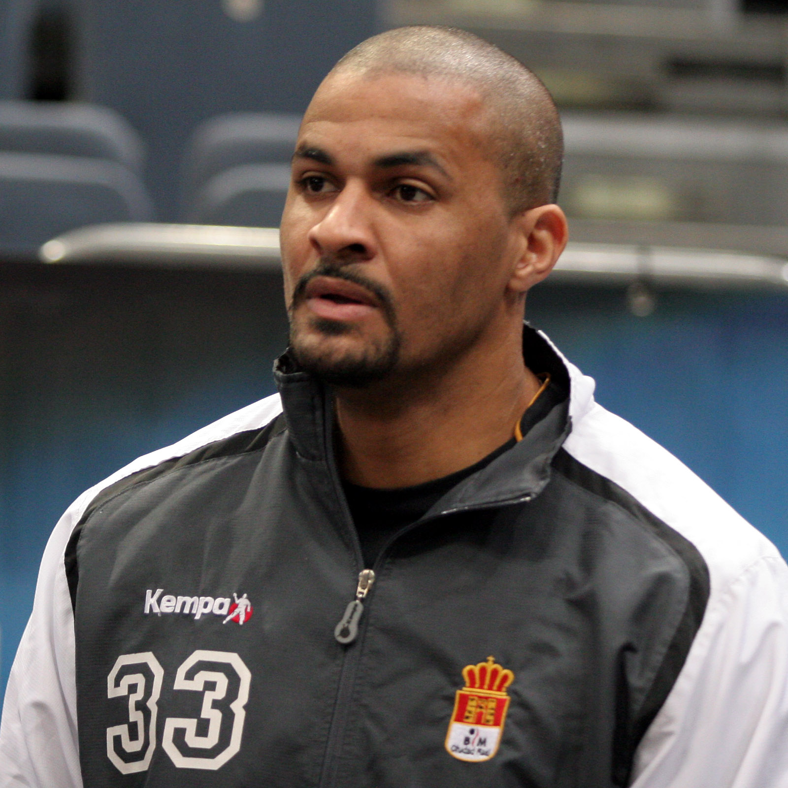 Didier Dinart, handball player of BM Ciudad Real (Spain), in the Kölnarena prior the champions league game VfL Gummersbach vers. BM Ciudad Real on February 20th, 2008